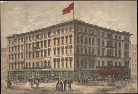 Title: A hand-coloured print of Rossin House, a Toronto Hotel Digital Image Number: I0006713.jpg Date: 1870 Place: Toronto (Ont.) Source: Archives of Ontario